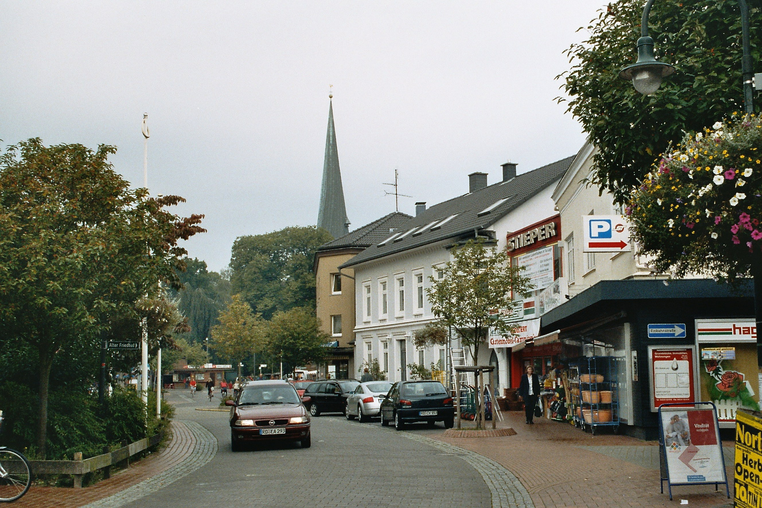 Nortorf, the street "Poststraße"